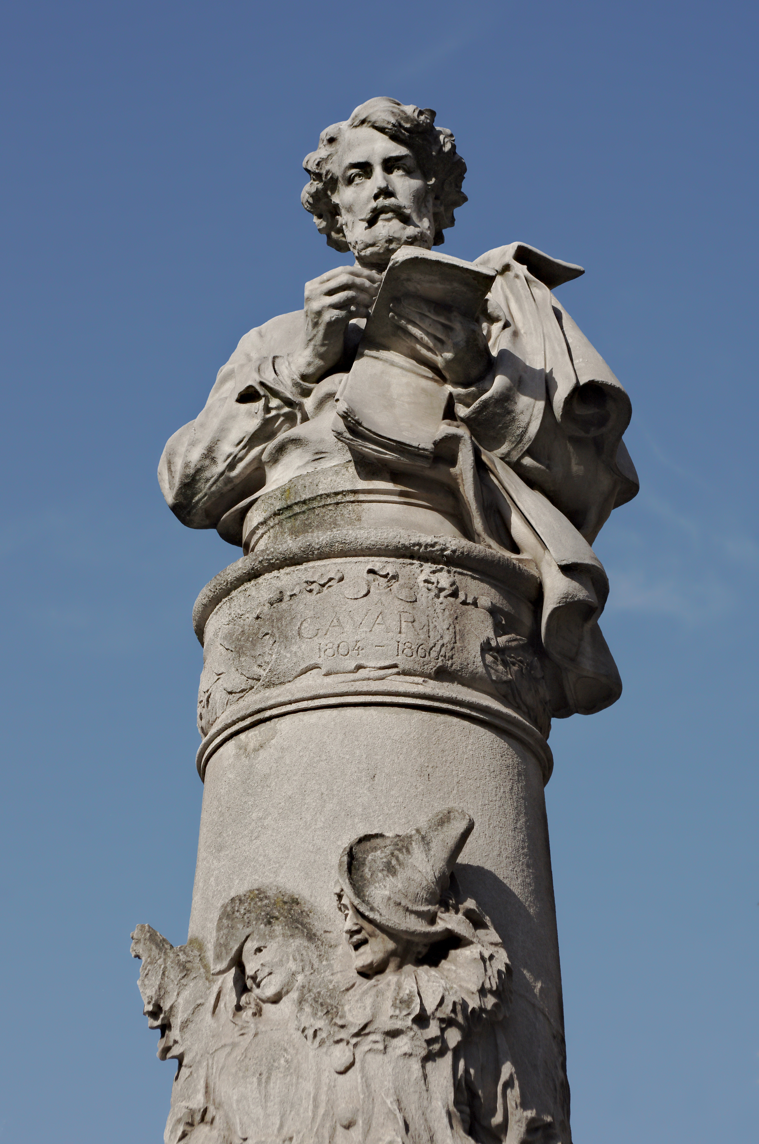 Detail of memorial to painter Paul Gavarni (1804-1866), place Saint-Georges, Paris (9th arrondissement), France. Sculptor : Denys Puech. Denys Puech (1854–1942) Alternative names Pierre, Denis PuechDescriptionFrench sculptorDate of birth/death 3 December 1854 9 December 1942 Location of birth/death Bozouls RodezAuthority control : Q3023427 VIAF: 47029694 ISNI: 0000 0000 7830 681X ULAN: 500054730 LCCN: nr96015810 Open Library: OL4830147A WorldCat creator QS:P170,Q3023427